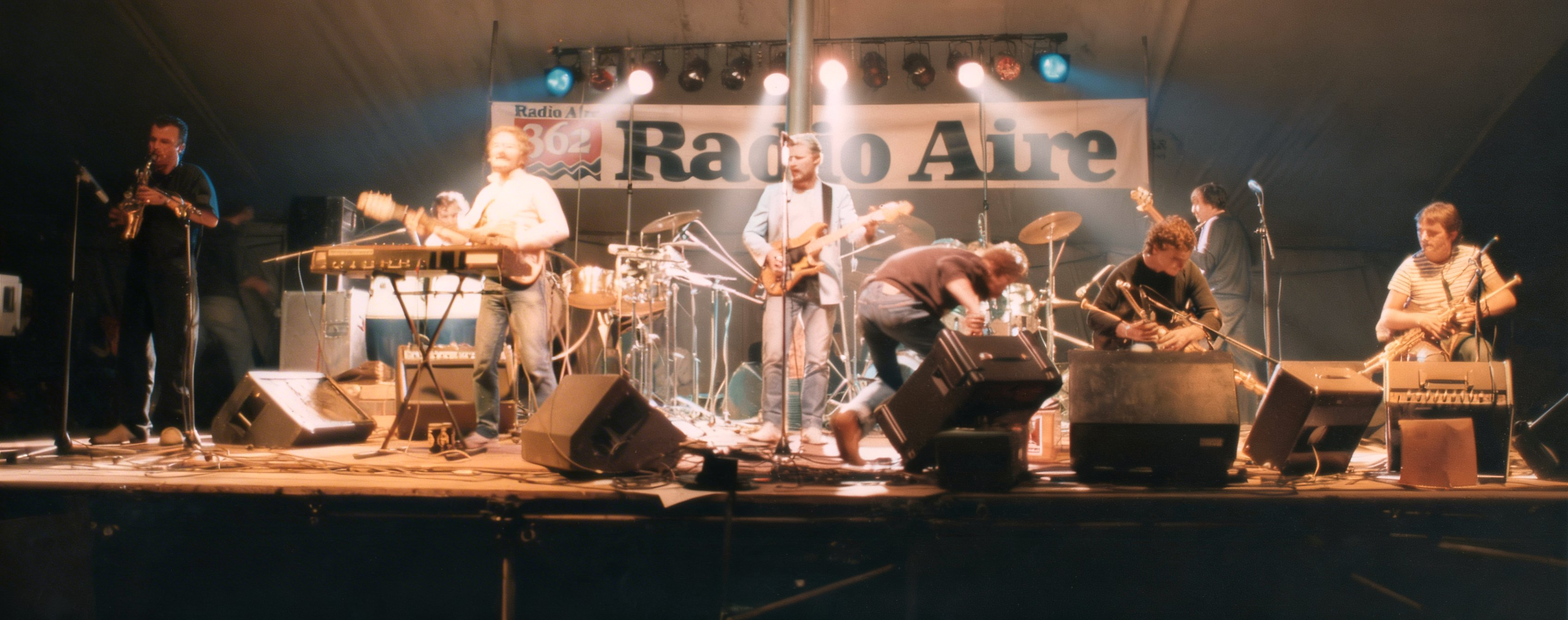 Moving Hearts, Irish folk group on stage at the Leeds Folk Festival, 1983 (photograph by Tony Rees)